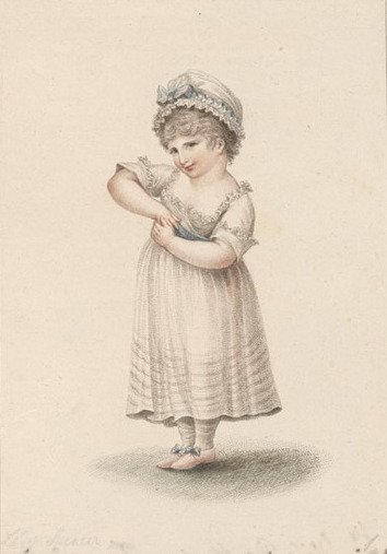 A little shy girl